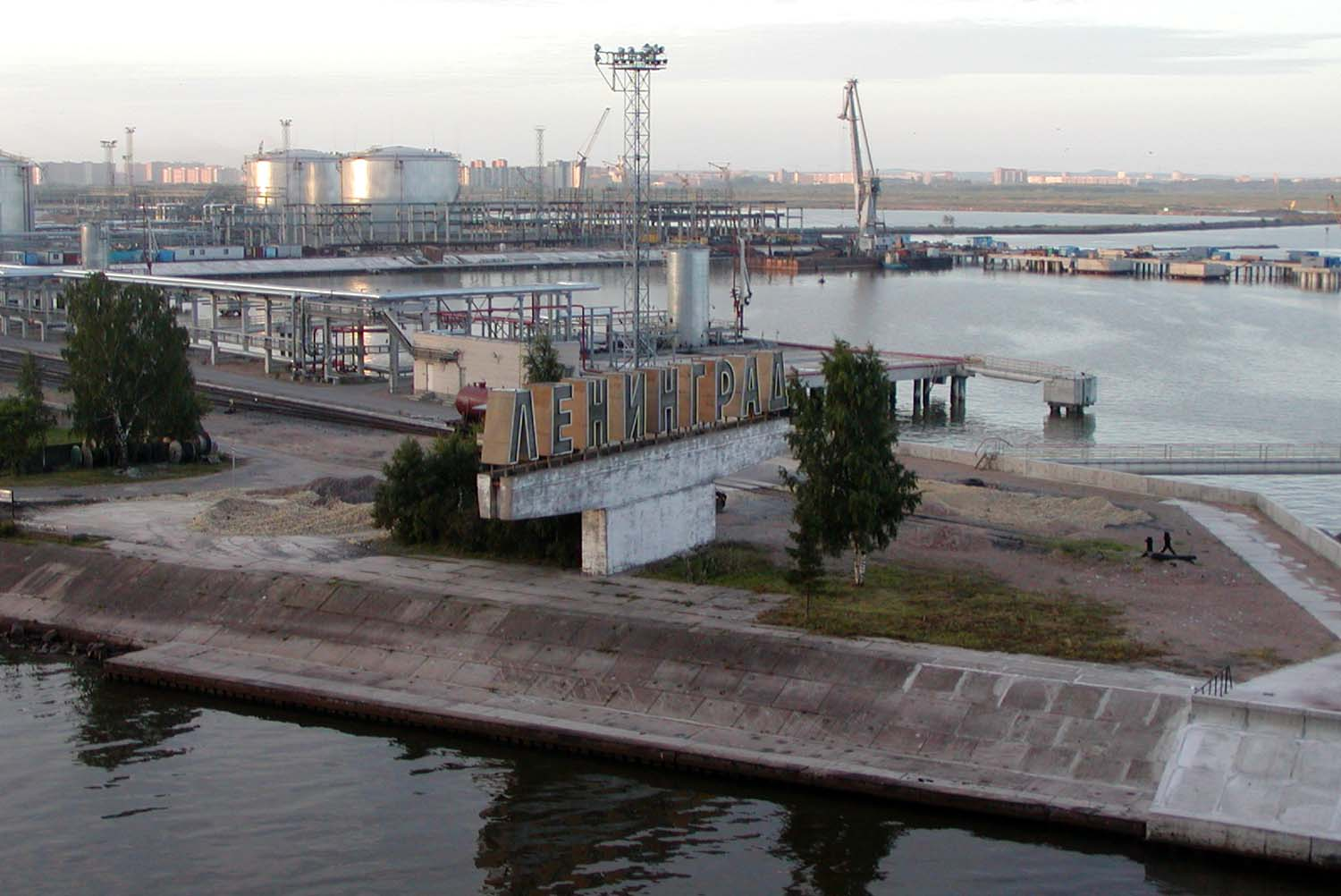 Entrance sign to the port of St Petersburg which still reads 'Leningrad'.